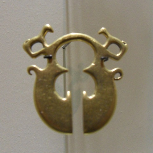 A lingling-o, a kind of pendant from Luzon, north-Philippinas.